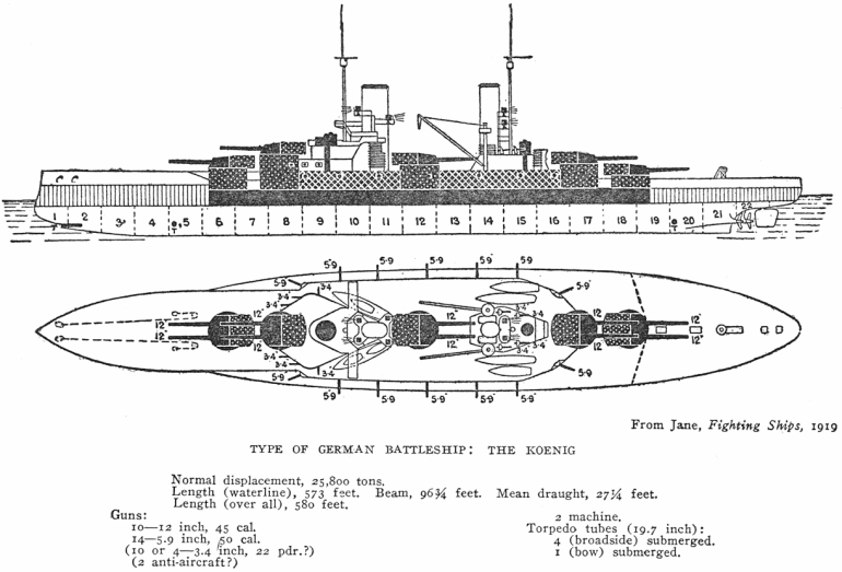 Diagrams depicting left elevation and plan views of König class battleship - credited to Jane's Fighting Ships, 1919